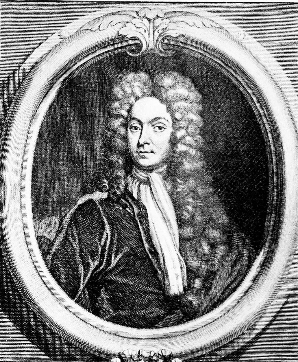 Josiah Burchett, Joint secretary and secretary of the Admiralty 1695-1742